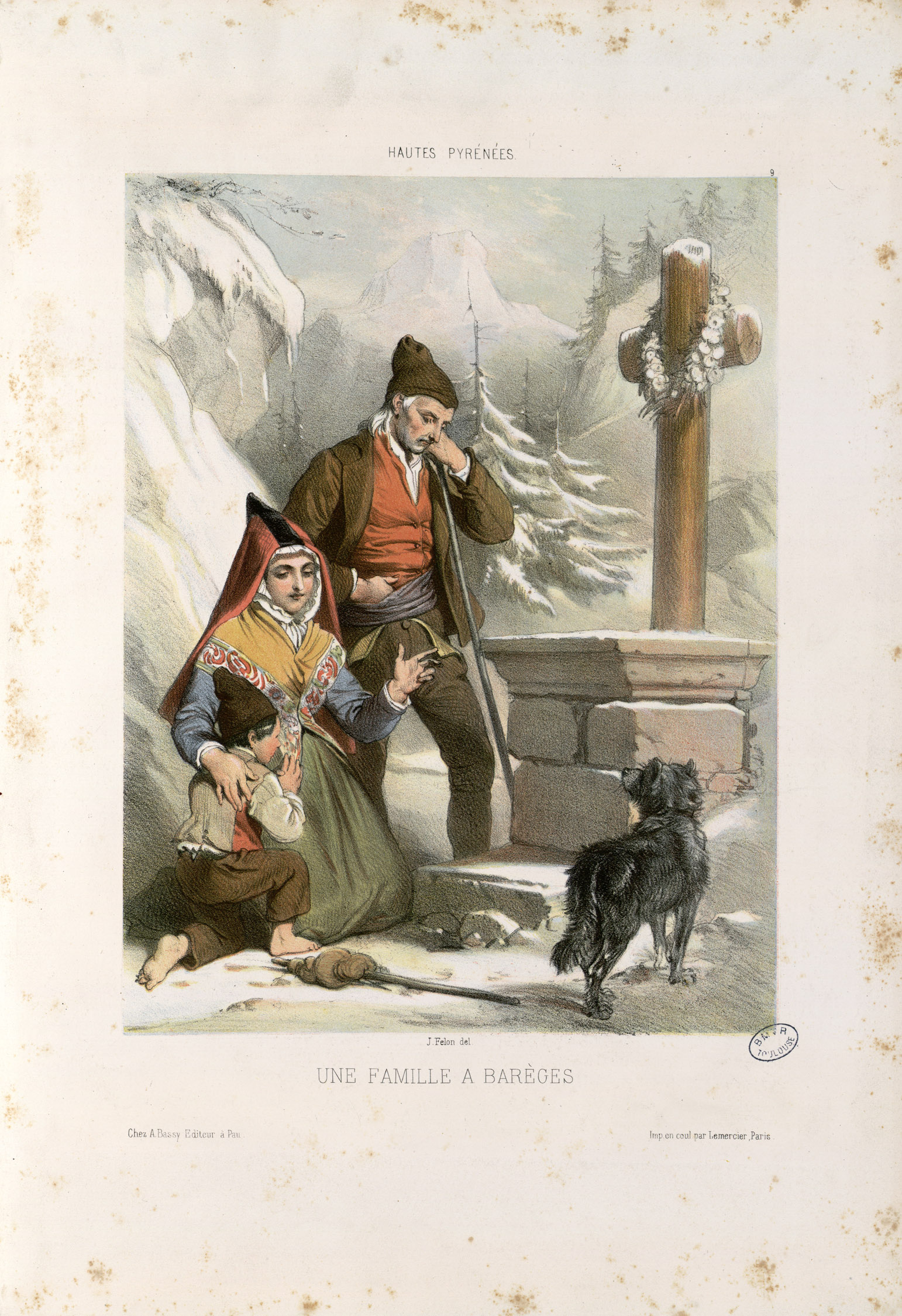 A family in Barèges (see full description on the site of the library of Toulouse)